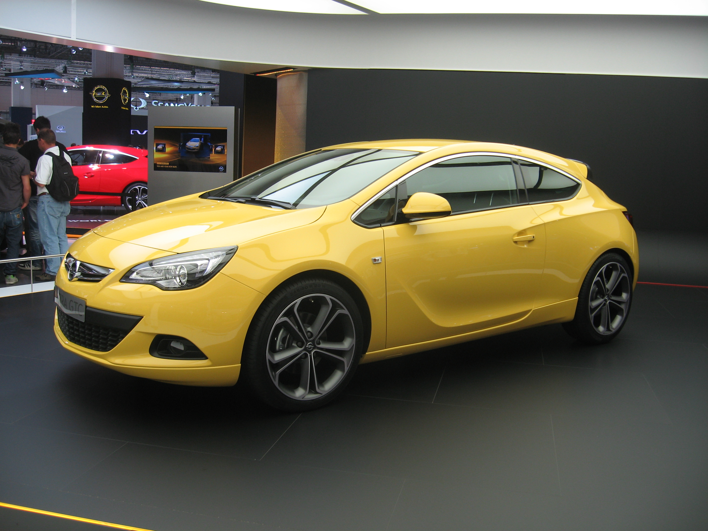 Subject: Opel Astra J Date:September 17th, 2011 Event: IAA 2011 Place/Country: Frankfurt am Main, Germany I release all rights in the public domain.